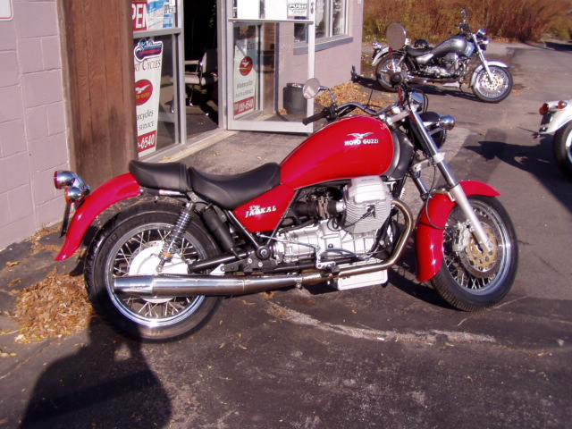 2000 Moto Guzzi Jackal Credit: Juda Engelmayer My First GuzziJuda S. Engelmayer 06:26, 28 January 2007 (UTC)